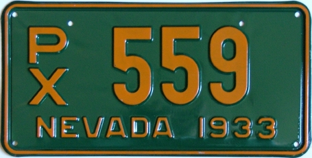 A 1933 Nevada Private Carrier license plate.